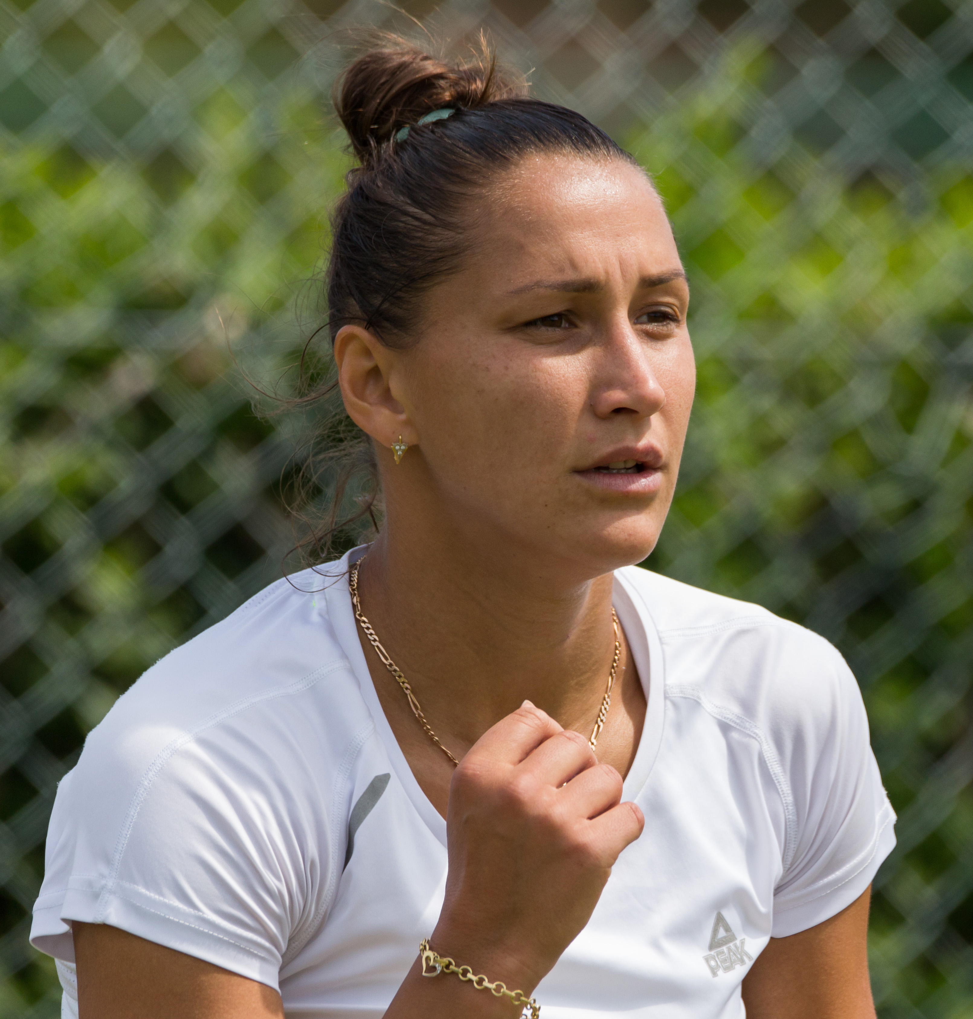 Ekaterina Bychkova competing in the second round of the 2015 Wimbledon Qualifying Tournament at the Bank of England Sports Grounds in Roehampton, England. The winners of three rounds of competition qualify for the main draw of Wimbledon the following week.